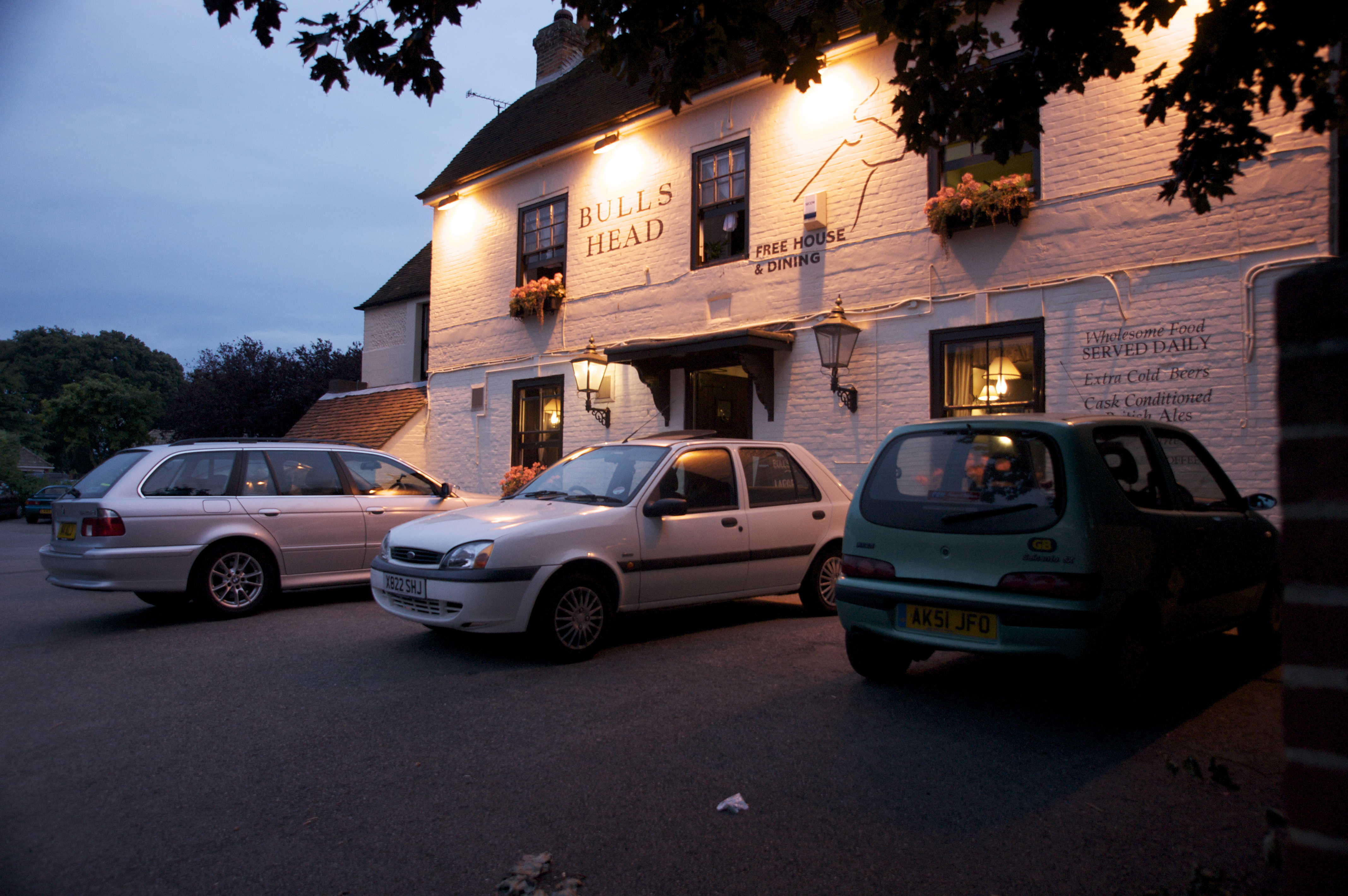 View from Goring Street of the frontage of the Bull's Head Freehouse